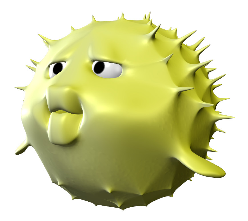 3D-rendered OpenBSD mascot Puffy, created with Blender3D